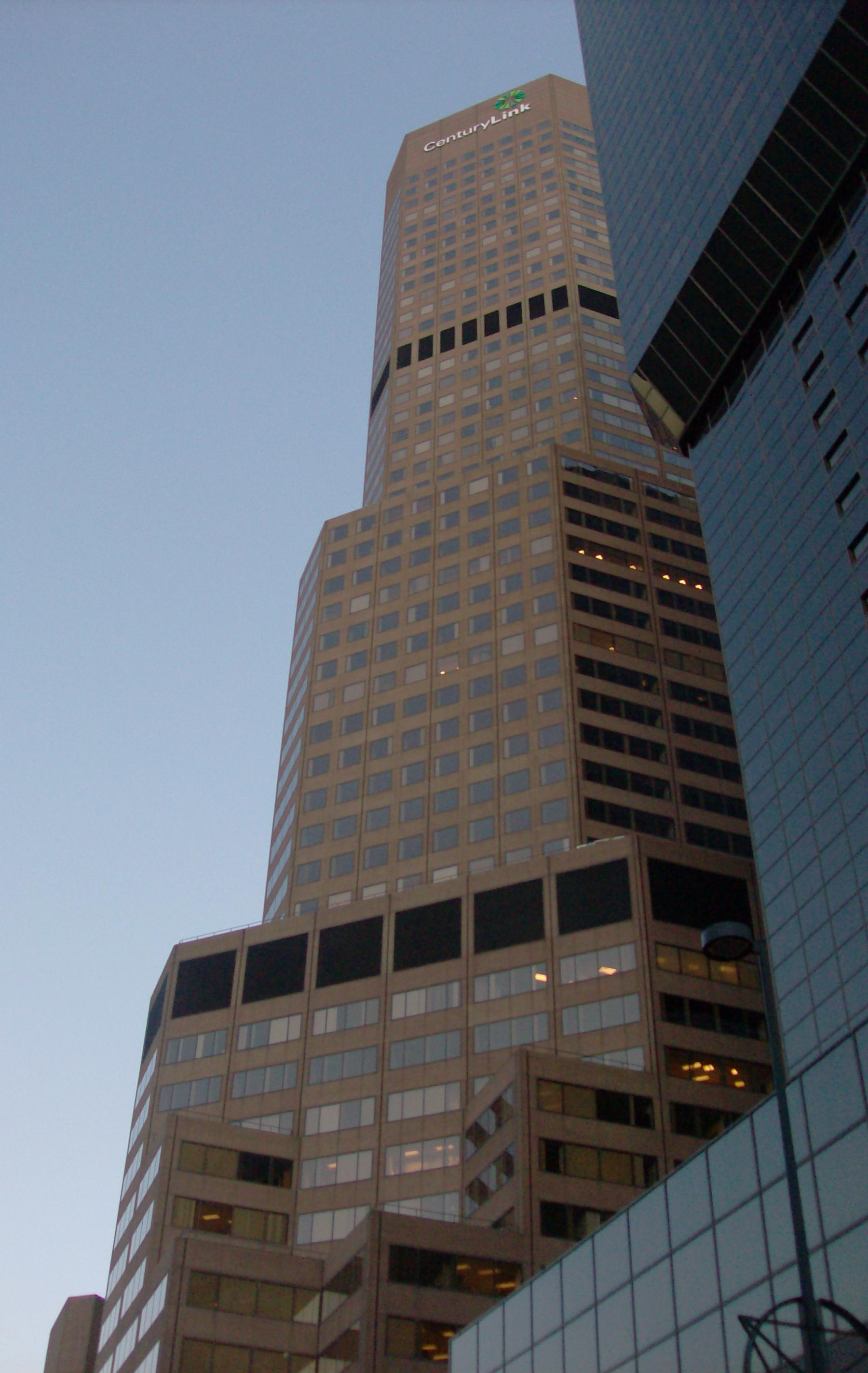 1801 California Street, Denver